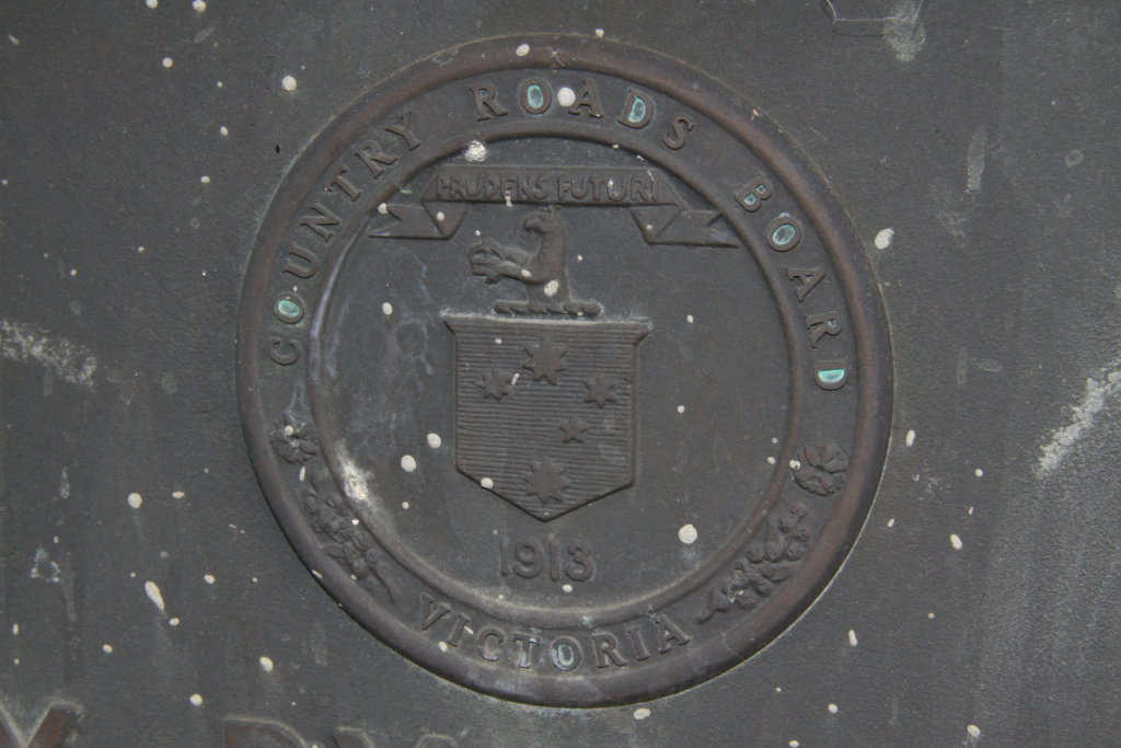 Shield of the Country Roads Board on the Maltby Bypass opening plaque